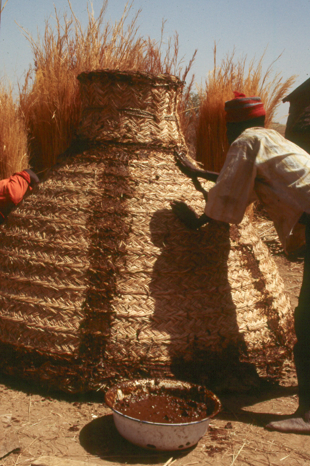 The ritual to inaugurate a new plaited granary. Kapsiki. Colour version of black-and-white photograph Figure 7.1, p. 129 in Walter E.A. van Beek: The dancing dead. Ritual and religion among the Kapsiki/Higi of North Cameroon and Northeastern Nigeria, Oxford University Press 2012